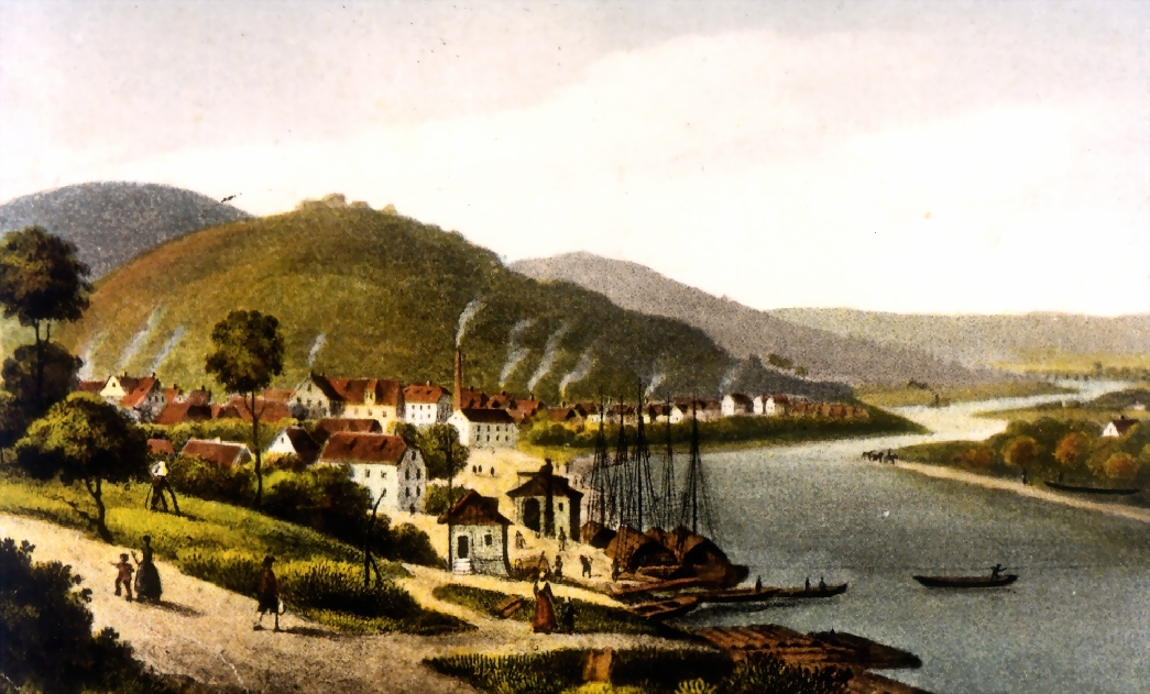 Look at Vlotho, harbour and mountain Amtshausberg about 1850